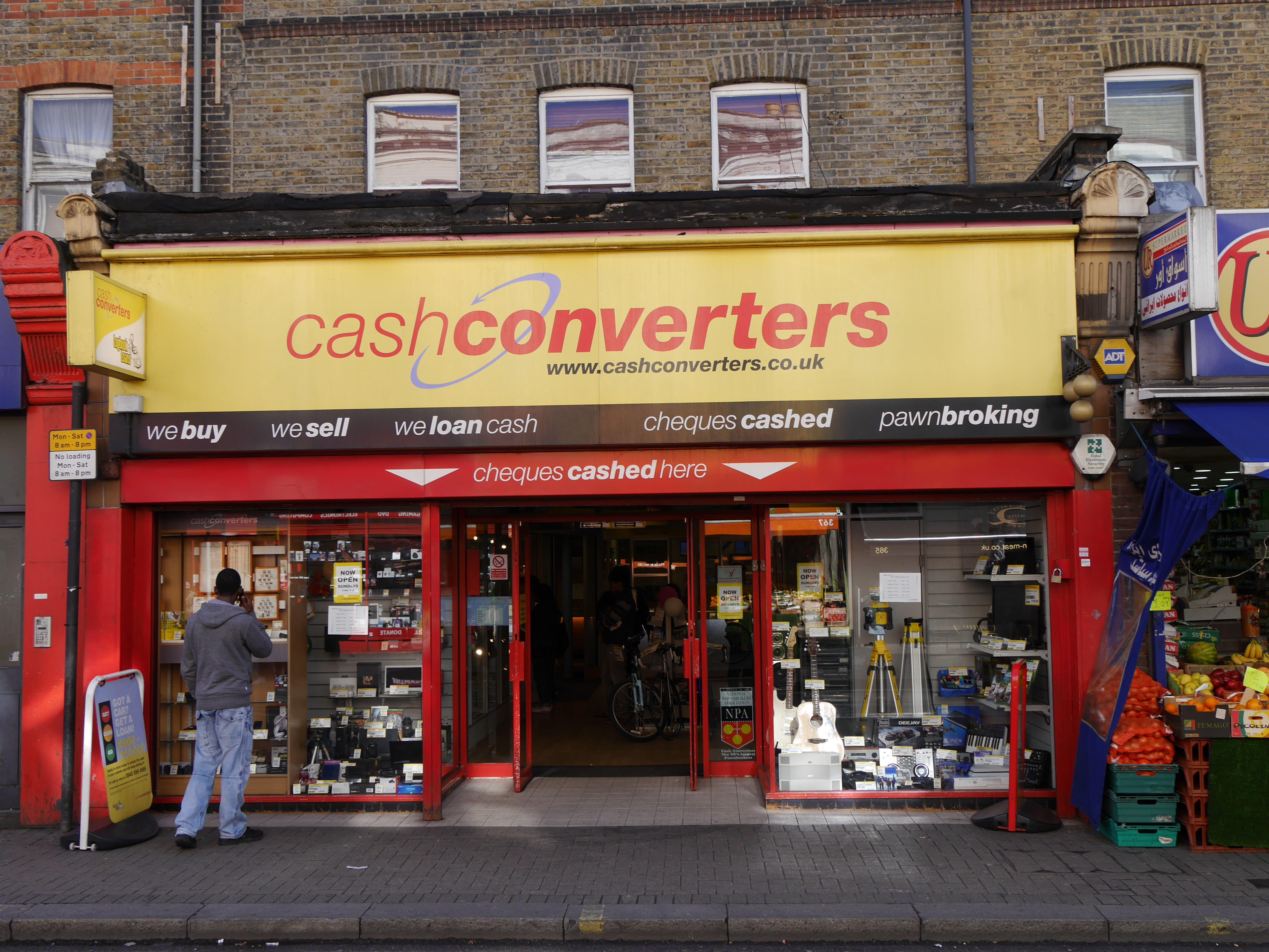 North End Road, Fulham, London